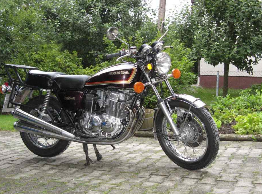 Honda CB750 four K7